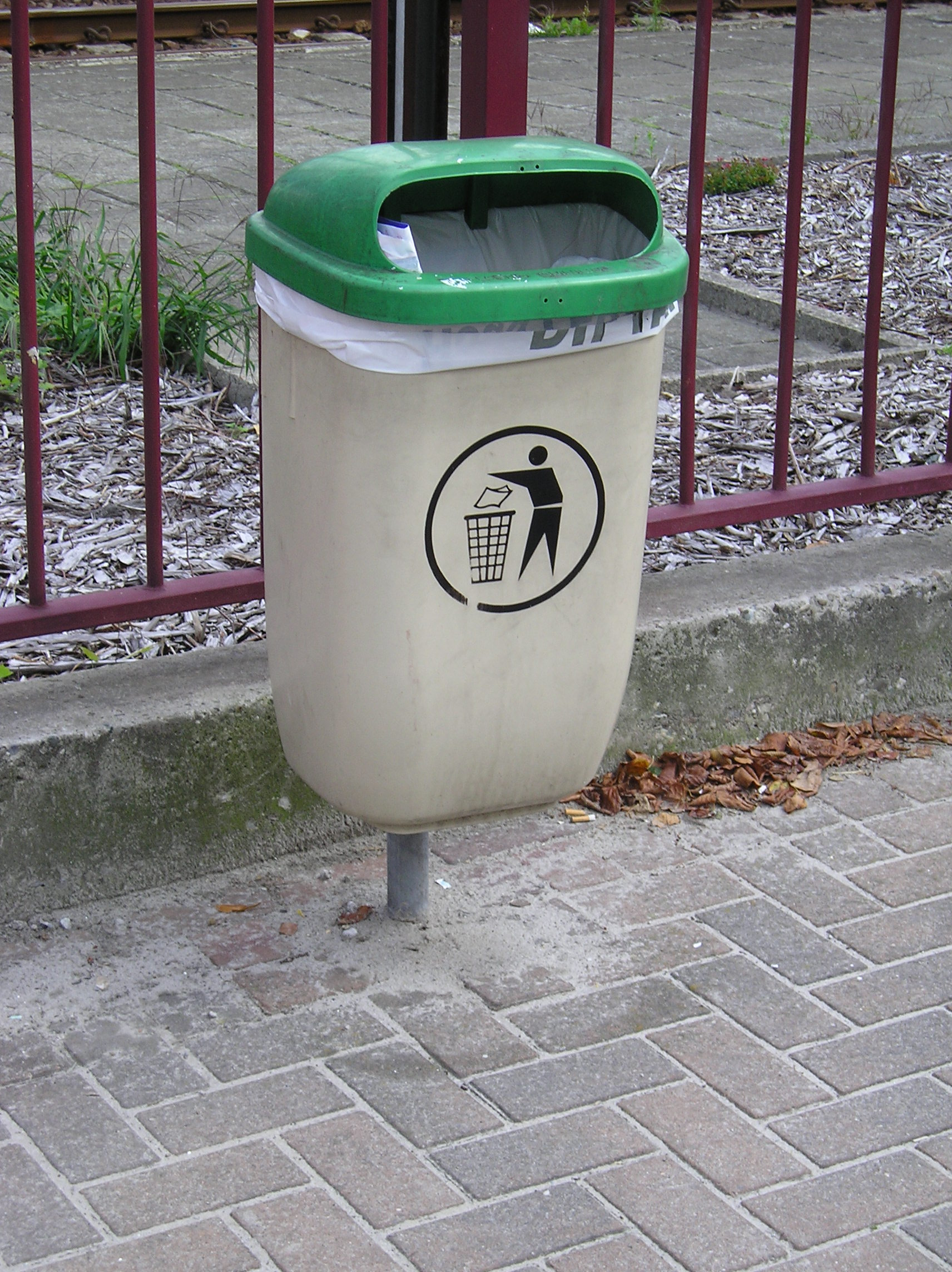 Trash container just near the train station of Lebbeke, Belgium